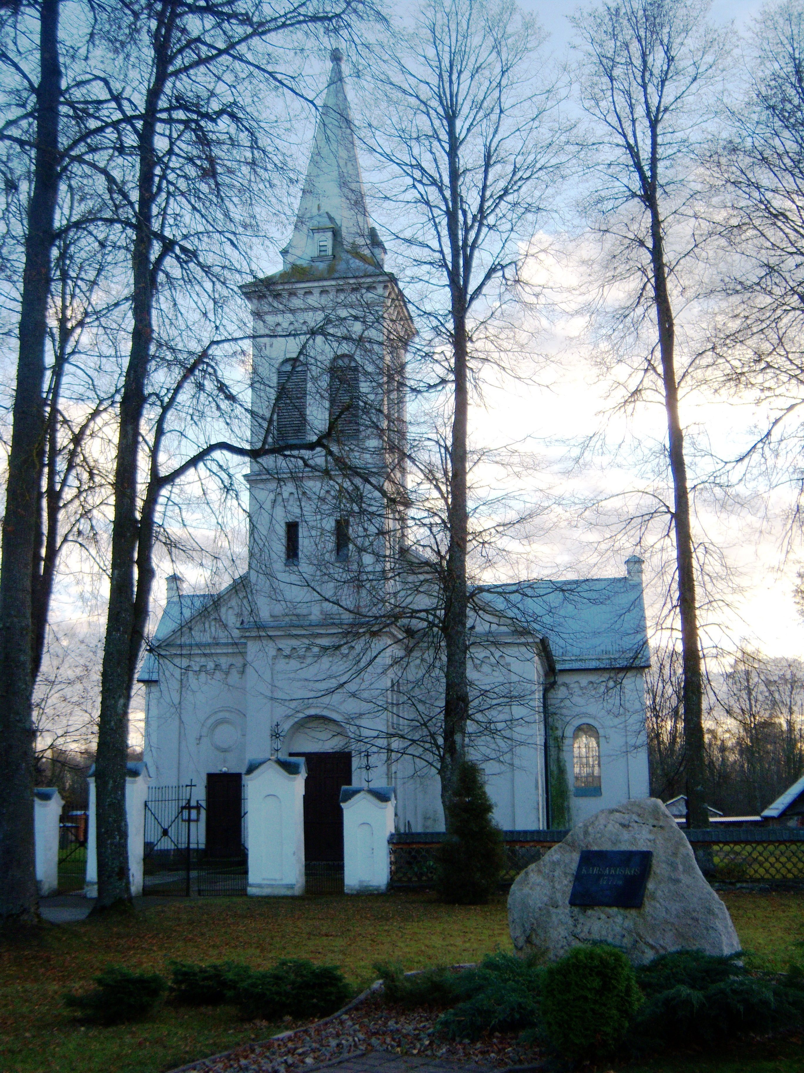 Roman Catholic Church in Karsakiškis, Panevėžys District, Lithuania